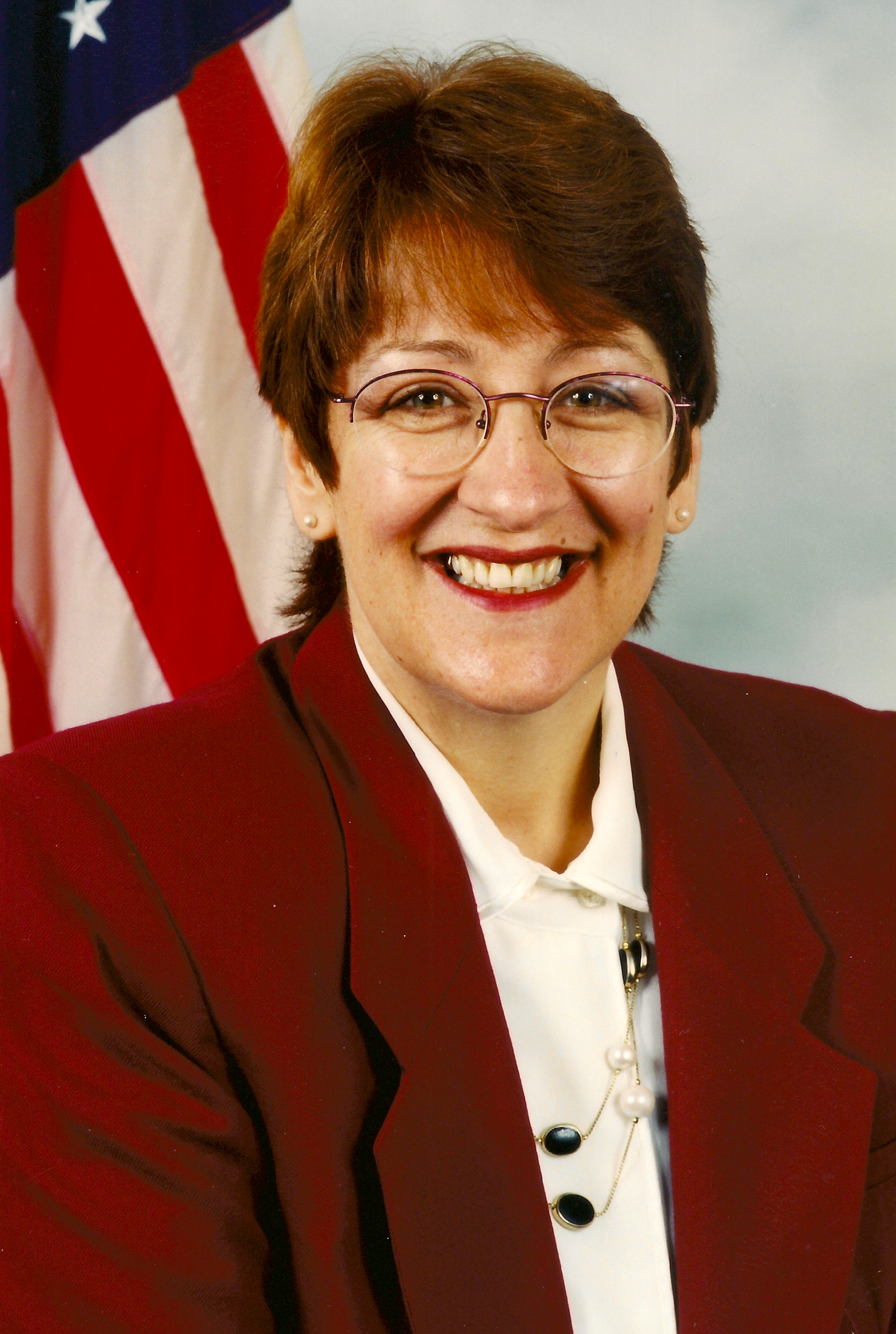 official 2002, scanned at my home